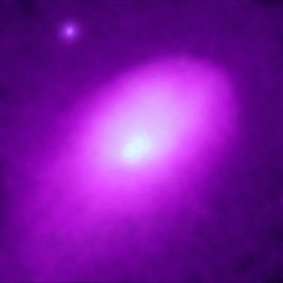 X-ray image of galaxy cluster Abell 2412